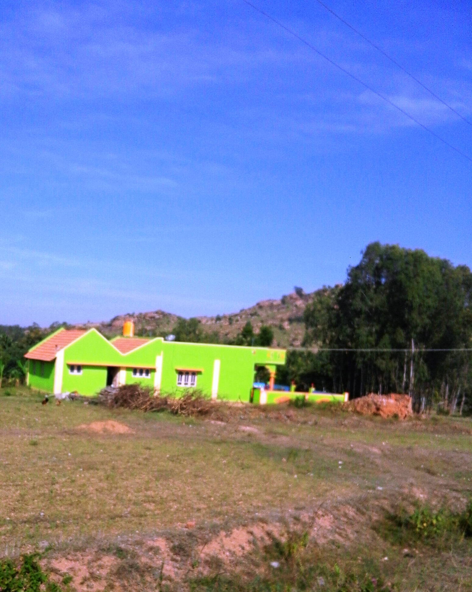 Mandya district, Karnataka state, India.